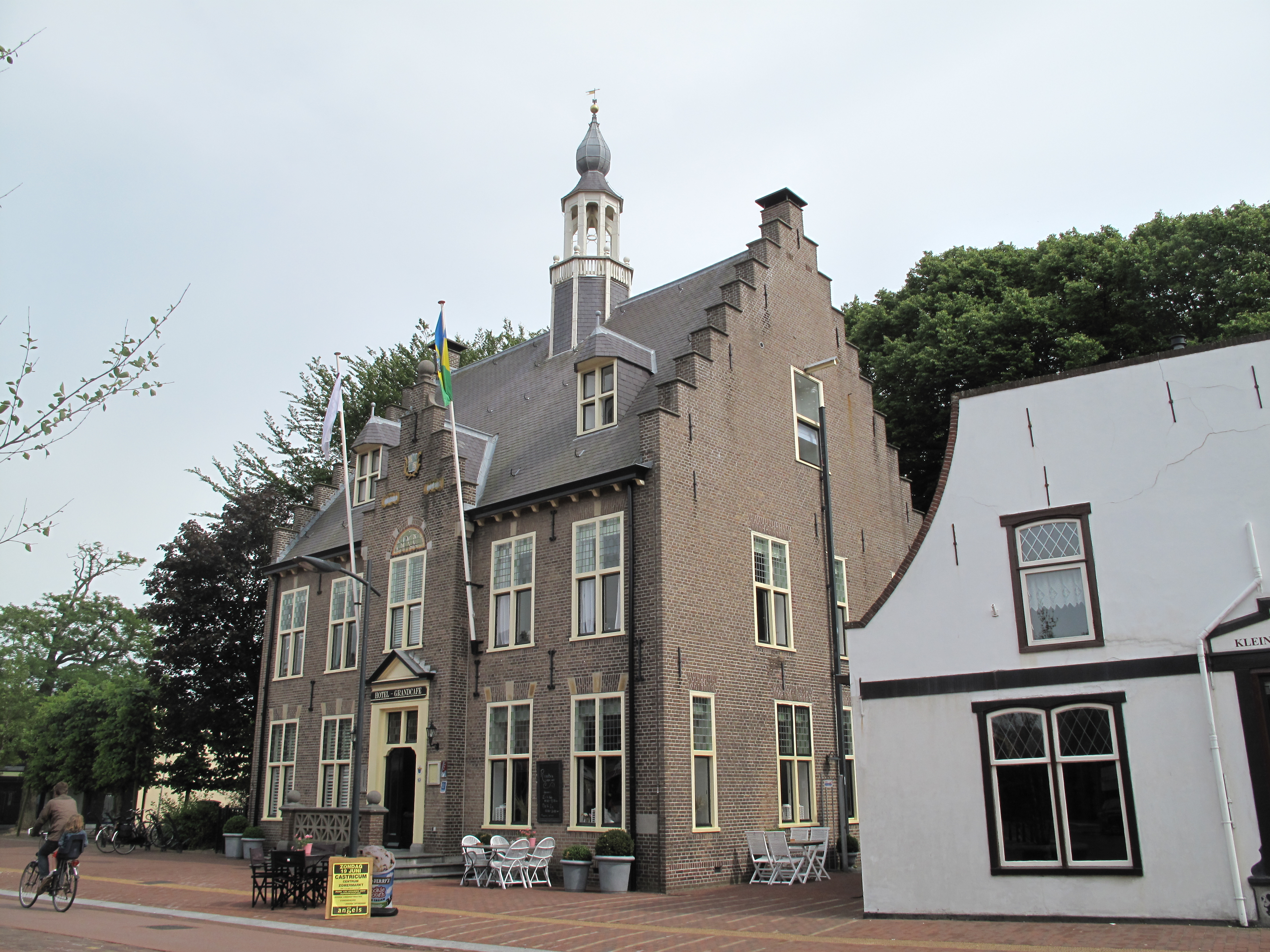 Castricum, hotel